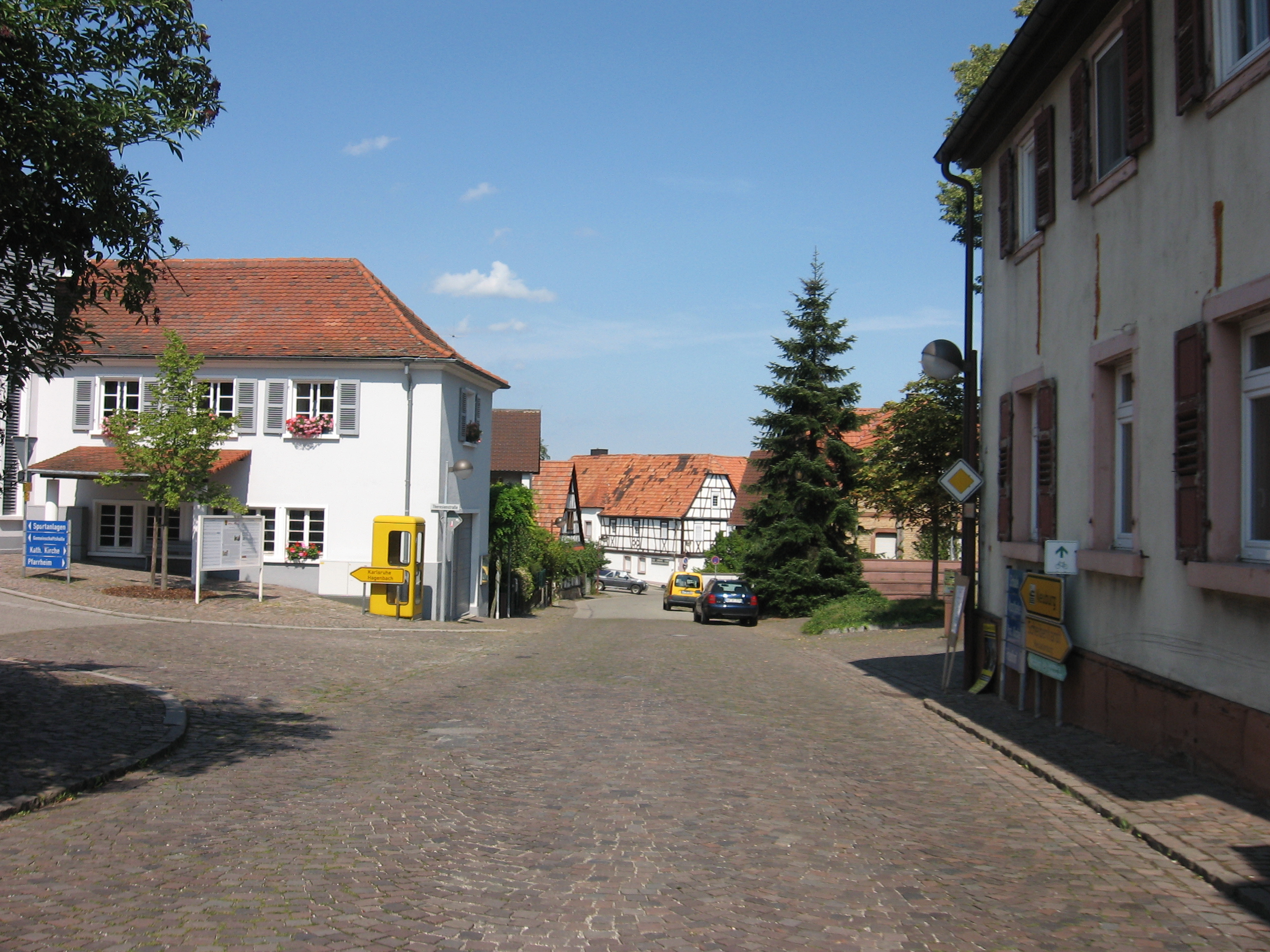 Berg (Pfalz)